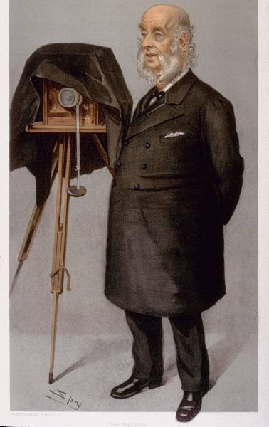 Caricature of Sir John Benjamin Stone MP (1838-1914). Caption read "East Birmingham".